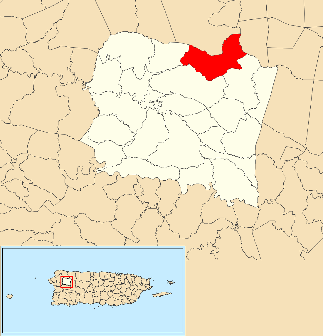 Aibonito, San Sebastián, Puerto Rico locator map